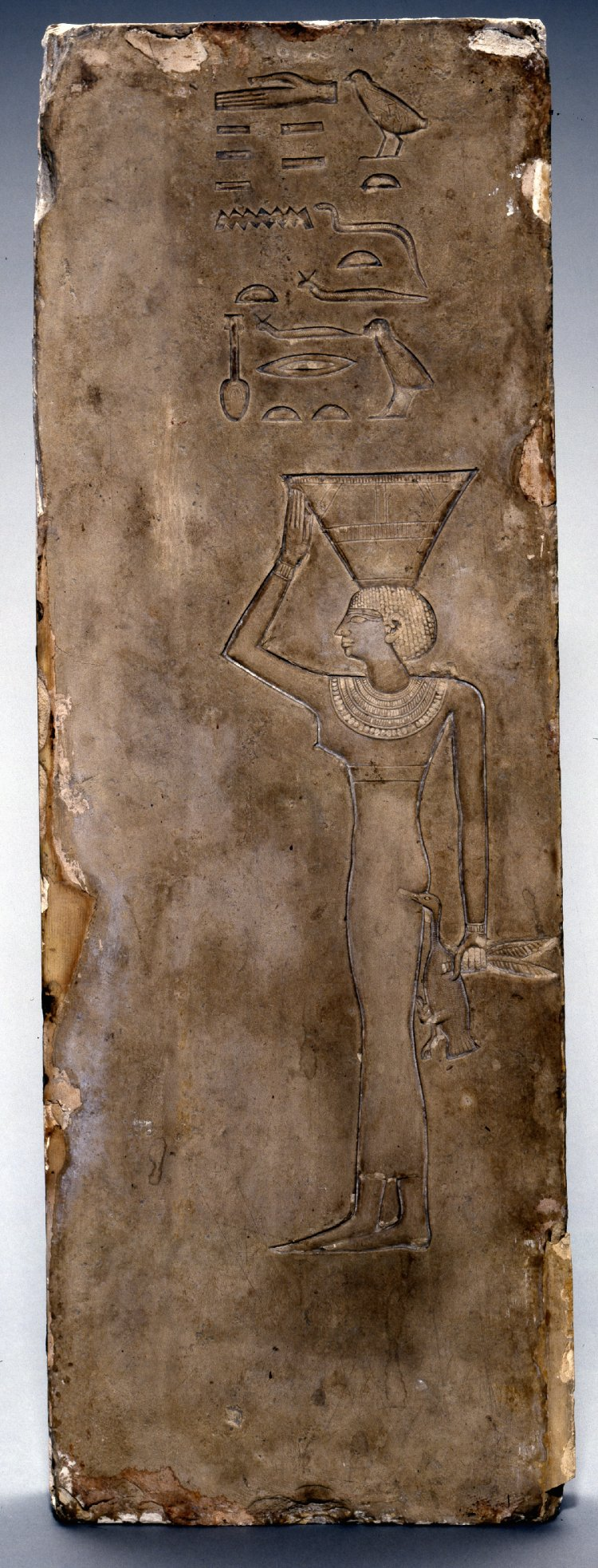 Limestone Stela Featuring Woman, Ancient Egypt 11th Dynasty, First Intermediate Period